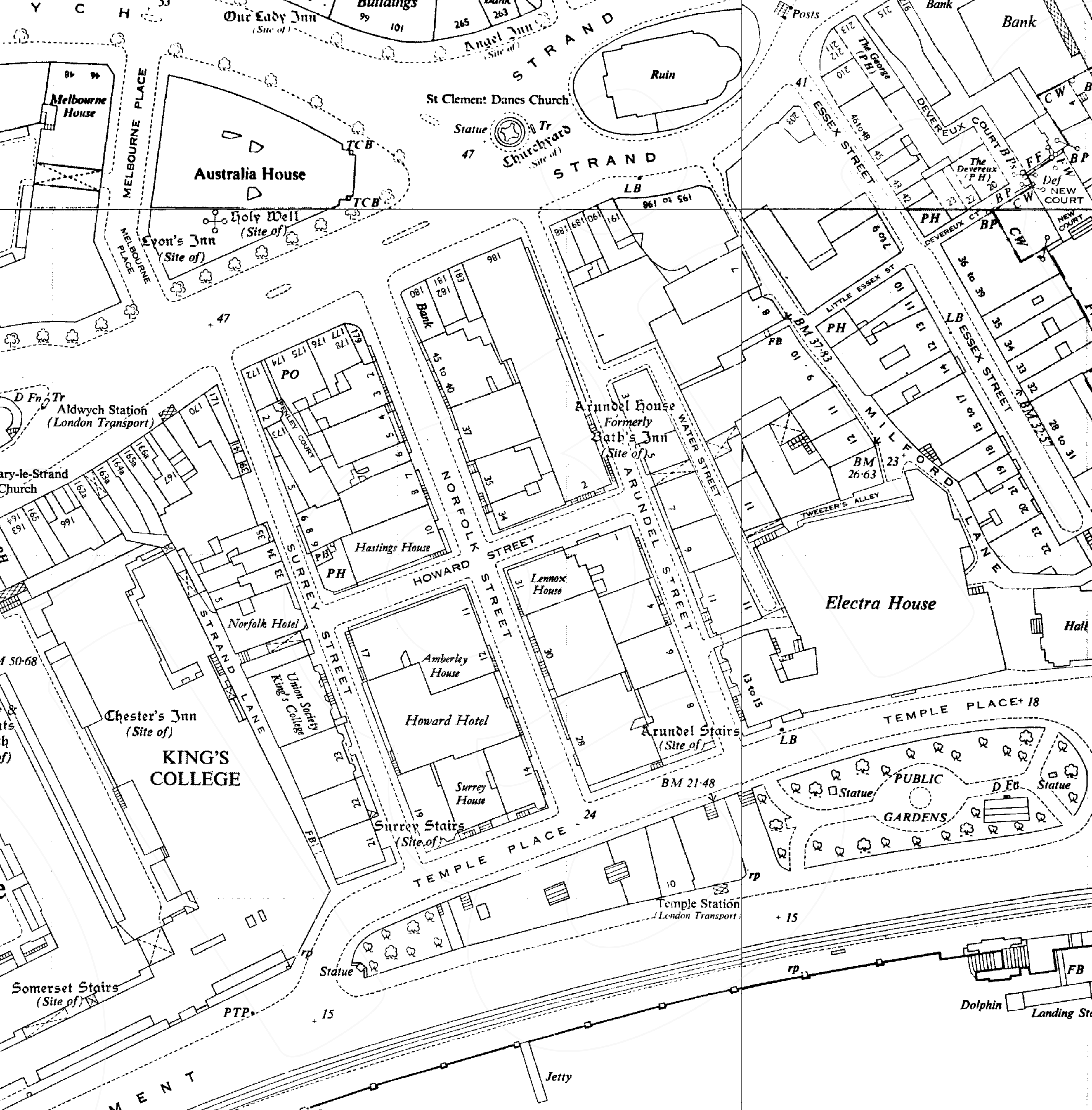 Norfolk Street and Howard Street, Ordnance_Survey_map_1950.